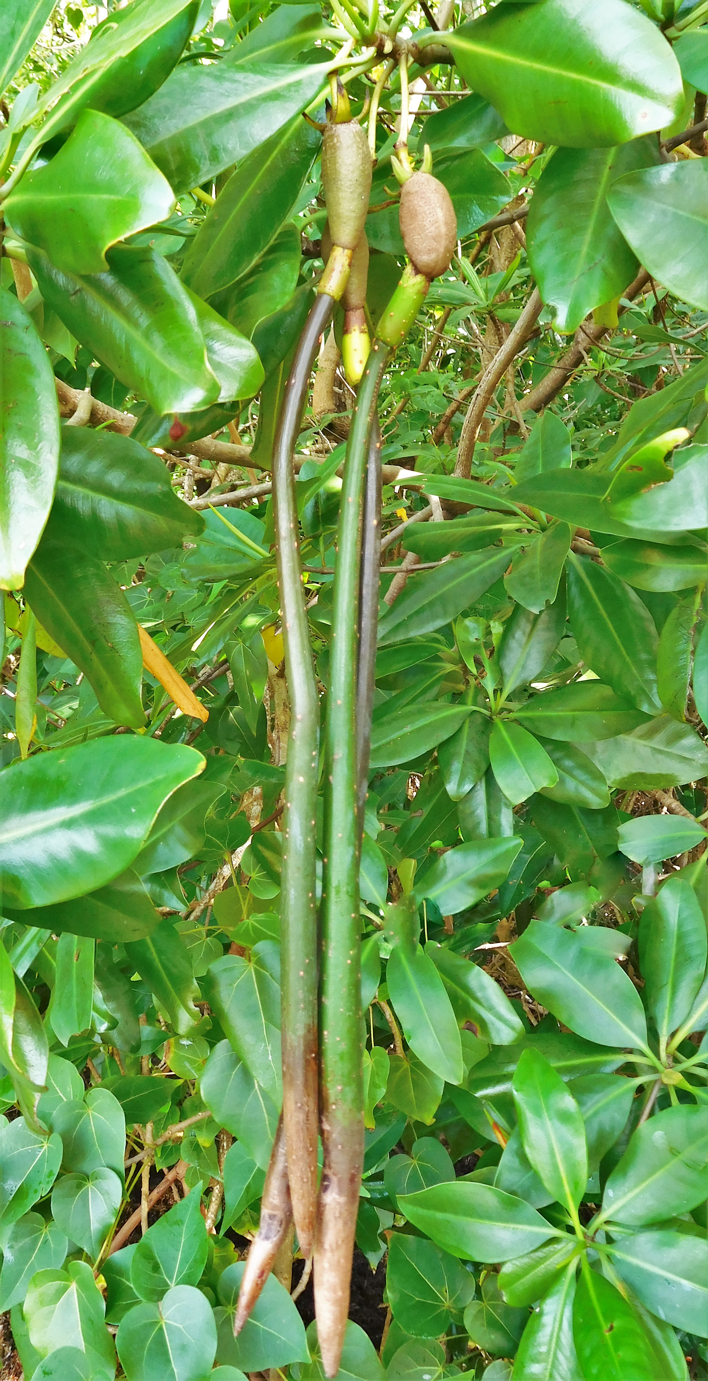 Rhizophora mangle